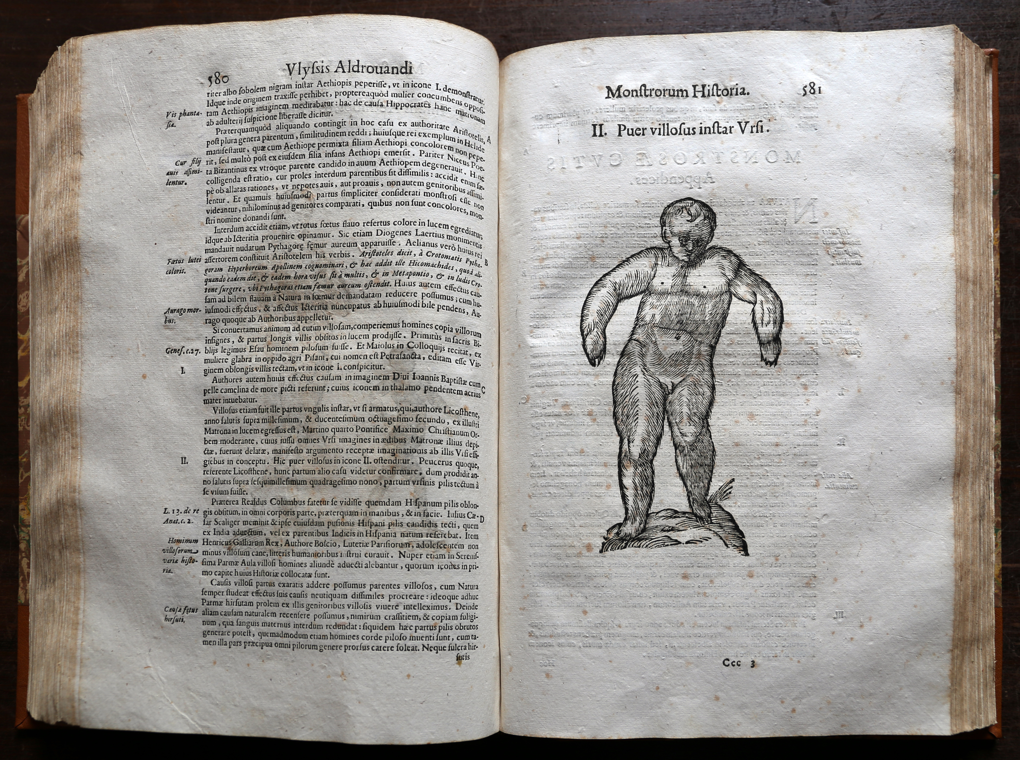 Monstrorum historia (Crusca)